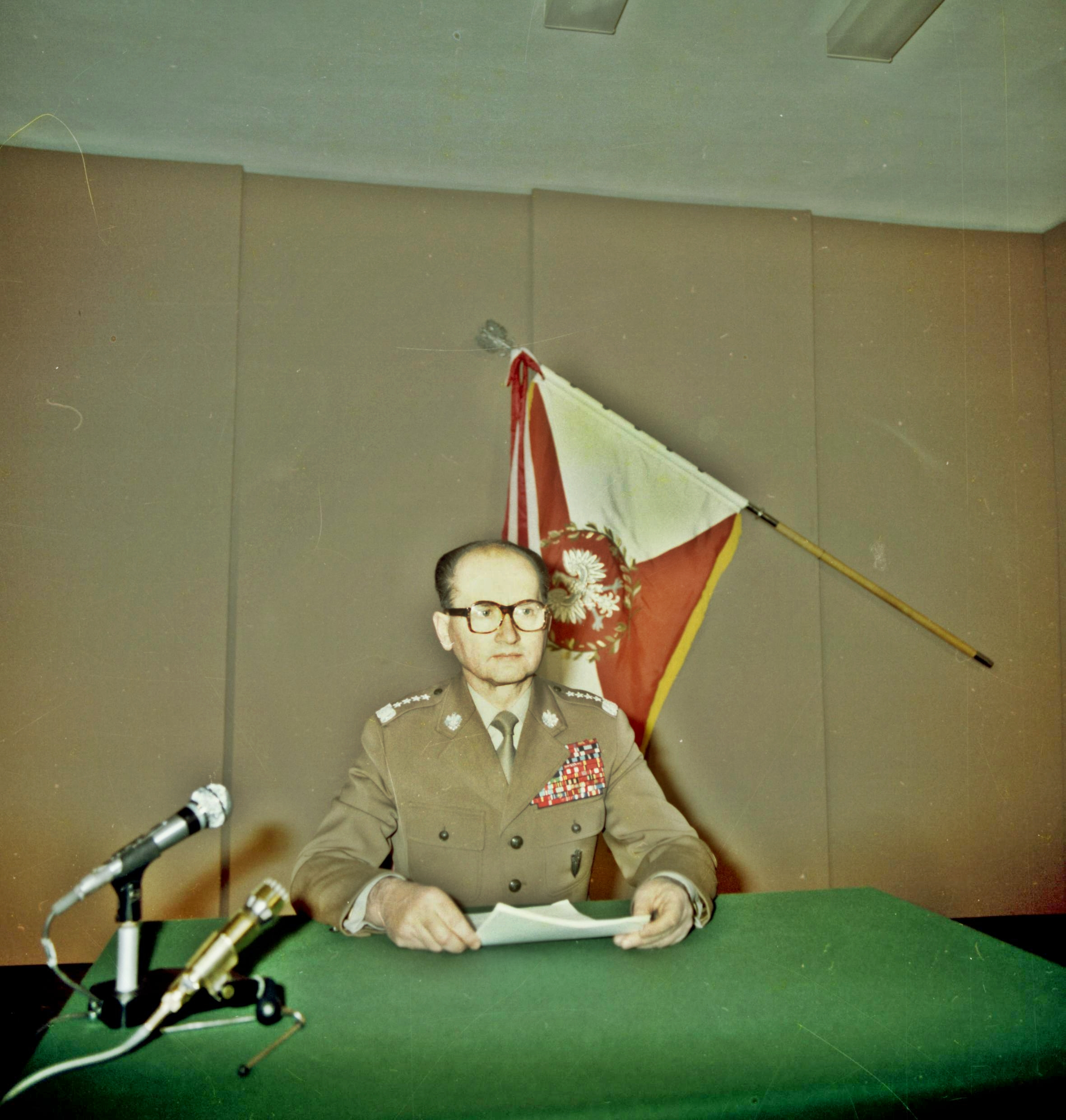 Gen. Wojciech Jaruzelski seen ready in a TV studio to read a speech announcing the introduction of martial law. Warsaw, 13 XII 1981